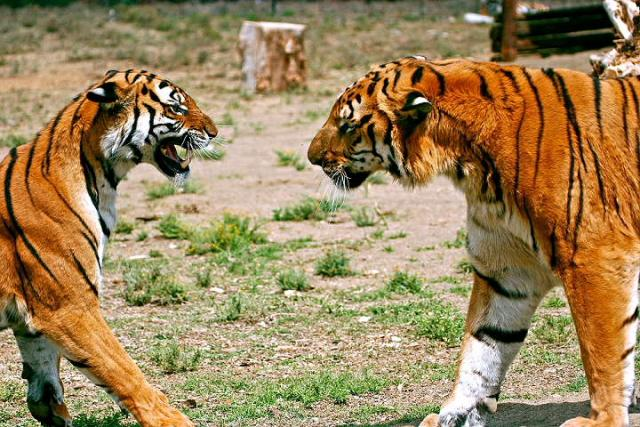 Stud Tiger 327 with Madonna